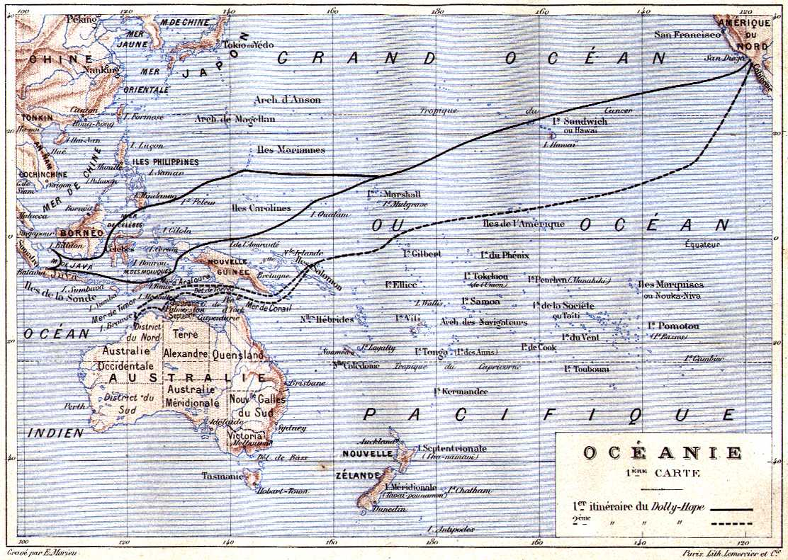 Map by Léon Benett to J. Verne novel